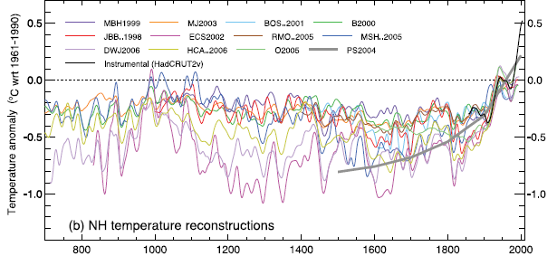 Reconstructions using multiple climate proxy records, from 'Climate change 2007: the physical science basis' ; Contribution of Working Group I to the Fourth Assessment Report of the Intergovernmental Panel on Climate Change Jansen, E., J. Overpeck, K.R. Briffa, J.-C. Duplessy, F. Joos, V. Masson-Delmotte, D. Olago, B. Otto-Bliesner, W.R. Peltier, S. Rahmstorf, R. Ramesh, D. Raynaud, D. Rind, O. Solomina, R. Villalba and D. Zhang.